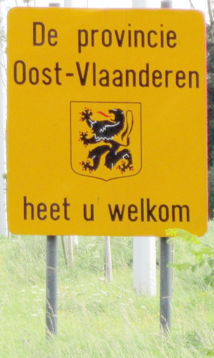 Road sign on entering East Flanders